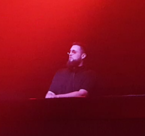 Tchami during Confession tour performance at Rebel night club in Toronto, Ontario.